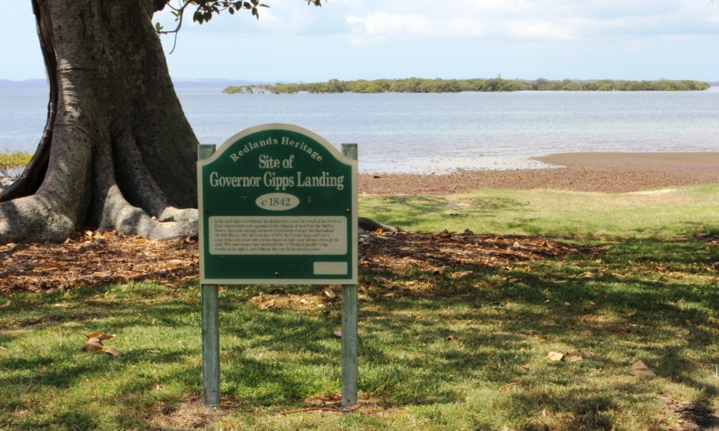 Sign marking where Governor George Gipps stepped onto a muddy shore at Cleveland and decided that Queensland's capital would be located elsewhere